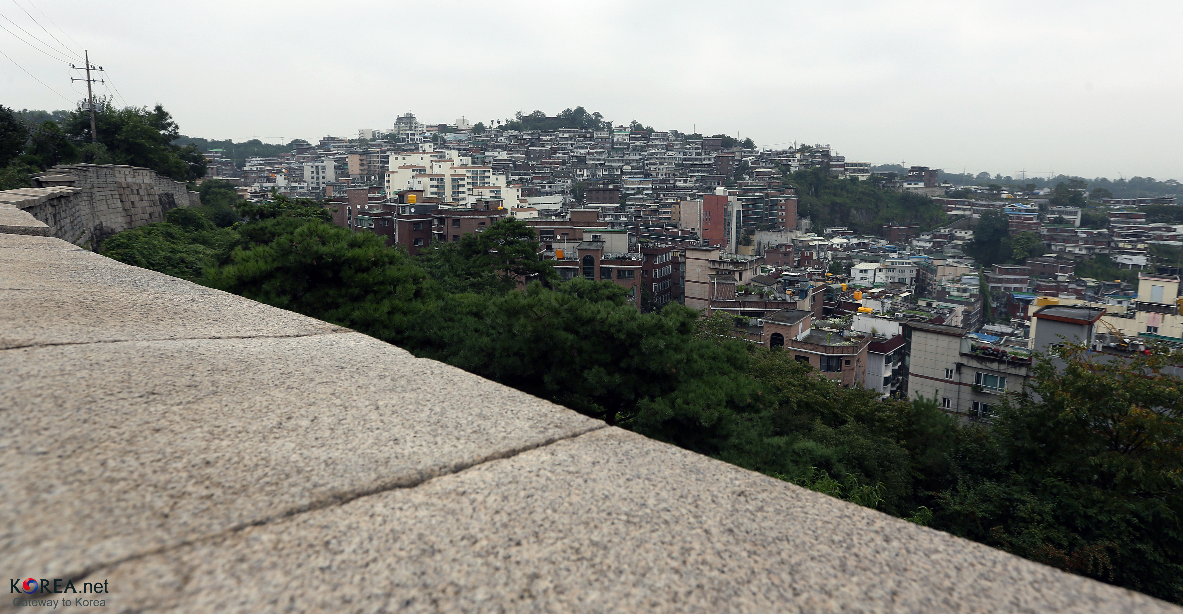 Seoul Fortress 2013.09.24. Fortress Park & Naksan Park, Seoul Ministry of Culture, Sports and Tourism Korean Culture and Information Service ( JEON HAN 서울 성곽 성곽공원 - 낙산공원, 서울 문화체육관광부 해외문화홍보원 코리아넷 전한